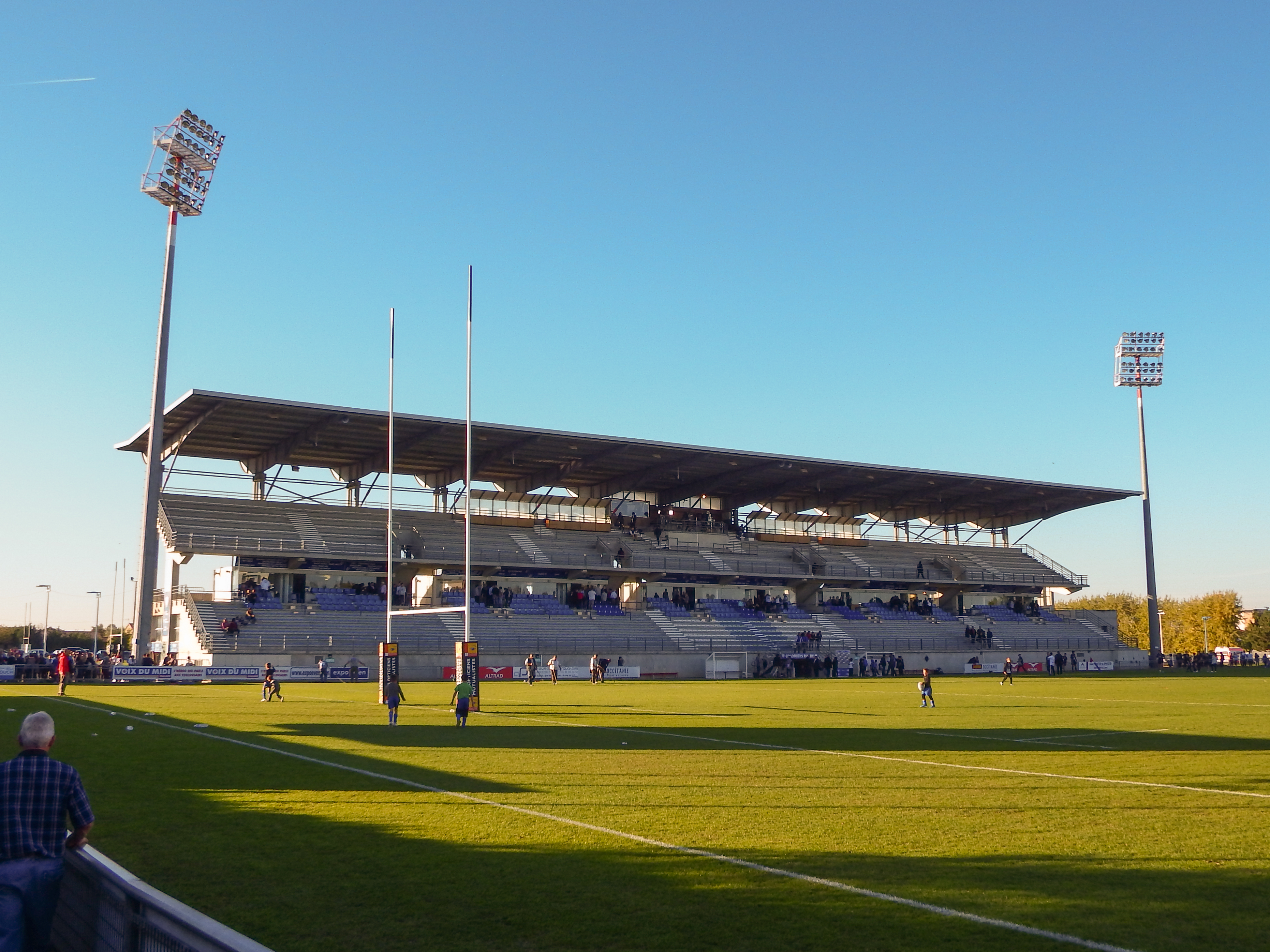 Pro D2 2016-2017 — 30 October 2016, Stade Michel-Bendichou. Match between: Colomiers rugby — US Dax